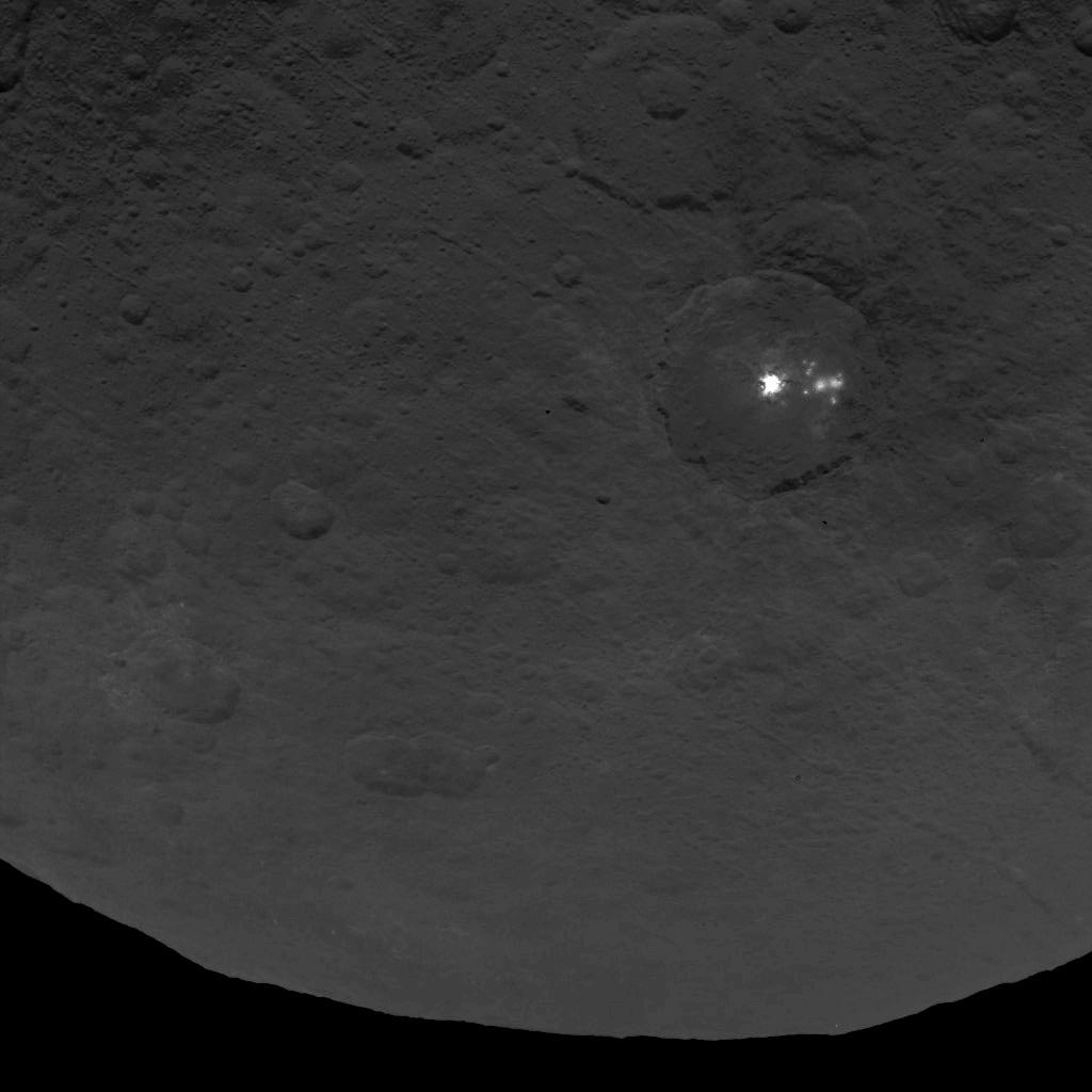 PIA19579: Dawn Survey Orbit Image 11 A cluster of mysterious bright spots on dwarf planet Ceres can be seen in this image, taken by NASA's Dawn spacecraft from an altitude of 2,700 miles (4,400 kilometers). The image, with a resolution of 1,400 feet (410 meters) per pixel, was taken on June 9, 2015. Dawn's mission is managed by JPL for NASA's Science Mission Directorate in Washington. Dawn is a project of the directorate's Discovery Program, managed by NASA's Marshall Space Flight Center in Huntsville, Alabama. UCLA is responsible for overall Dawn mission science. Orbital ATK, Inc., in Dulles, Virginia, designed and built the spacecraft. The German Aerospace Center, the Max Planck Institute for Solar System Research, the Italian Space Agency and the Italian National Astrophysical Institute are international partners on the mission team. For a complete list of acknowledgments, For more information about the Dawn mission, visit